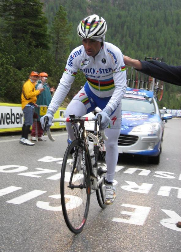 Paolo Bettini 2007